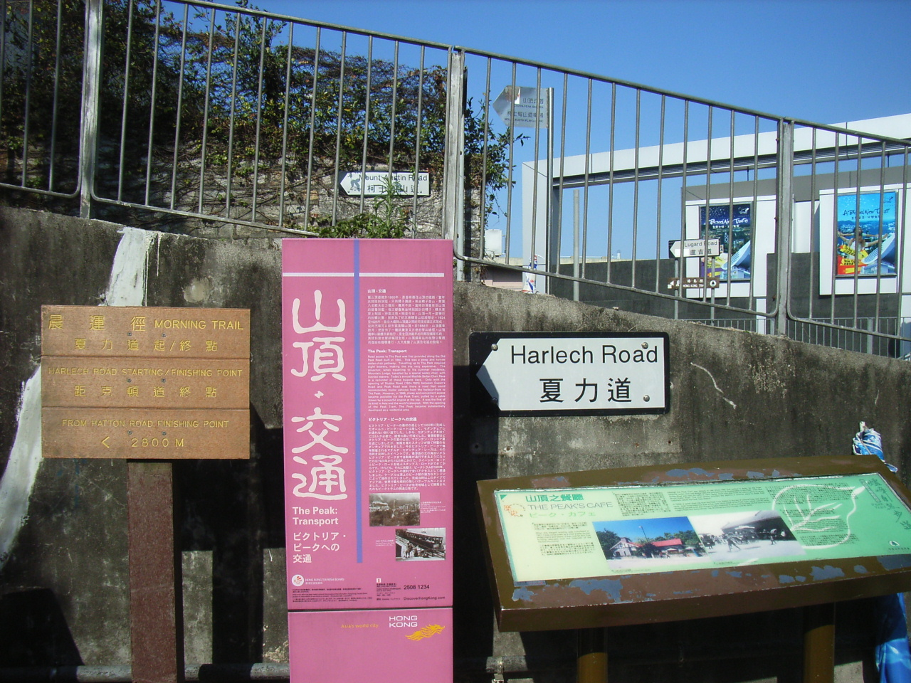 (柯士甸山道) Mount Austin Road & (夏力道) Harlech Road, Victoria Peak, Hong Kong A information post tells about the history of the "Peak Cafe", now the Peak Lookout Photographer and author is ParkerStarS.